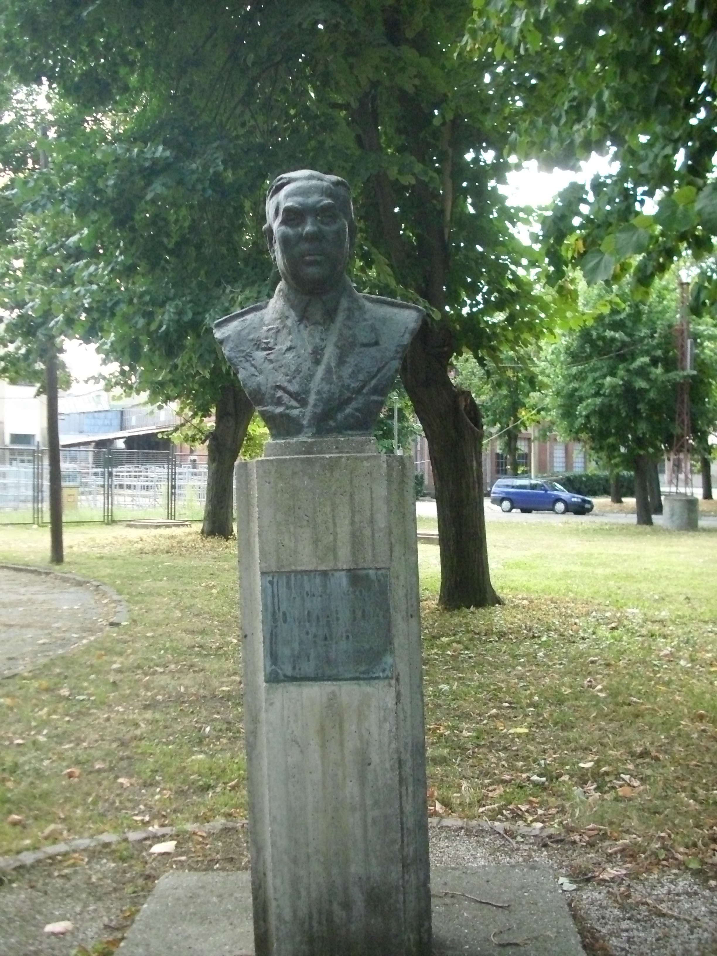 Vojislav Radić, People's Heroe of Yugoslavia. Monument in Kragujevac in "Zastava" area.. September 2010